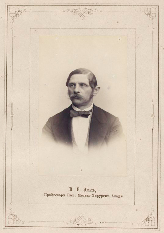 Vladimir Egorovich Ekk (1818-1875)